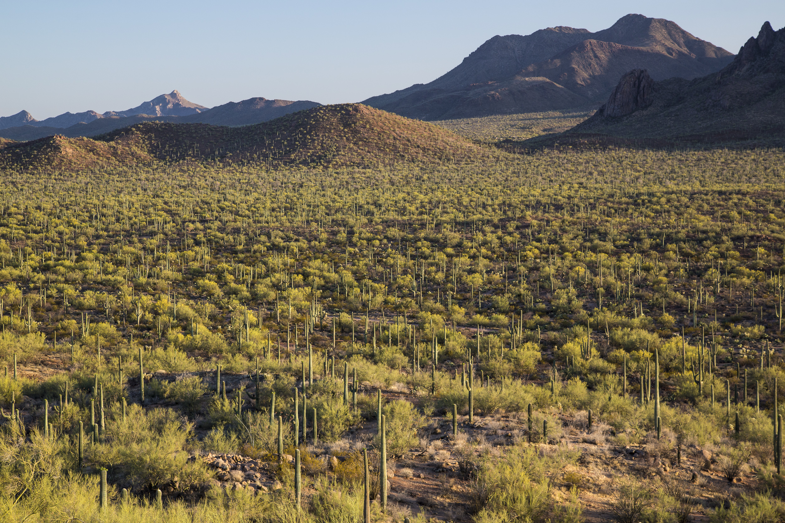 mypubliclandsroadtrip continues this week with Something Different -- some of the most unique locations by the BLM, from film locations to geologic wonders to speedways. Our Something Different posts begin in a desert forest of giants. Taking its name from one of the longest living trees in the Arizona desert, the 129,000-acre Ironwood Forest National Monument is a true Sonoran Desert showcase. Keeping company with the ironwood trees are mesquite, palo verde, creosote, and saguaro, blanketing the monument floor beneath rugged mountain ranges named Silver Bell, Waterman and Sawtooth. In between, desert valleys lay quietly to complete the setting. Elevations here range from 1,800 to more than 4,200 feet. Ragged Top Mountain is the biological and geological crown jewel of the national monument. Several endangered and threatened species live here, including the Nichols turk’s head cactus and the lesser long-nosed bat. The national monument also contains habitat for the cactus ferruginous pygmy owl and desert bighorn sheep dwelling, which makes hiking, wildlife watching and photography favorite activities in this desert jewel.